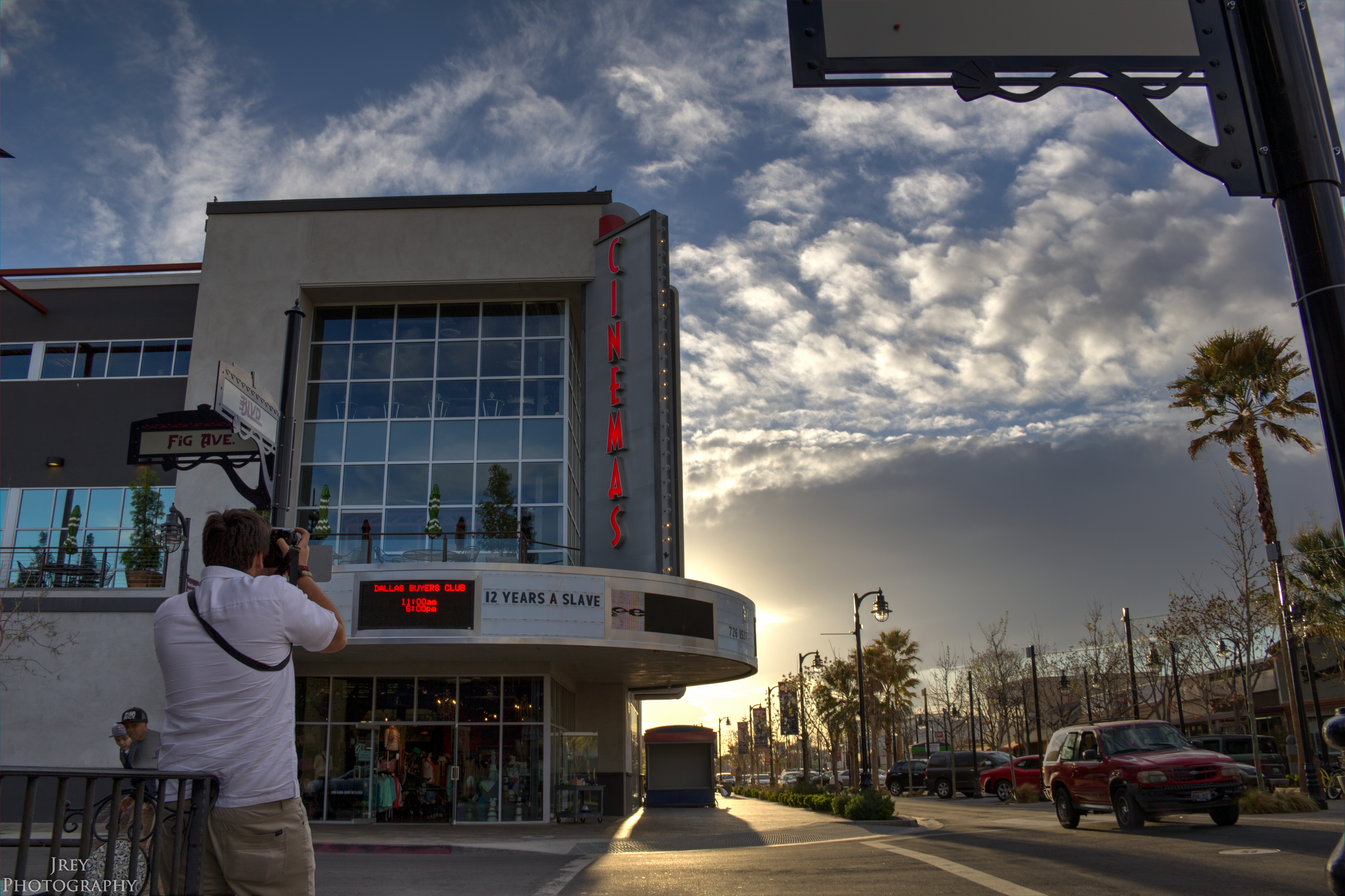 The Laemmle BLVD Cinema located in downtown Lancaster